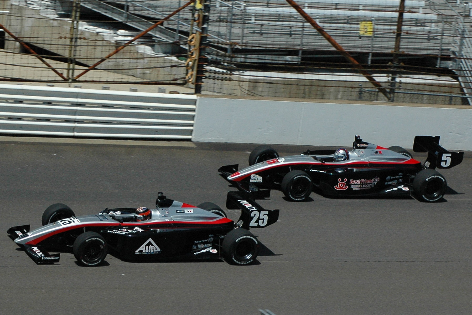 J. R. Hildebrand (inside) and Andrew Prendeville (outside) race in the 2008 Firestone Freedom 100 Indy Lights race